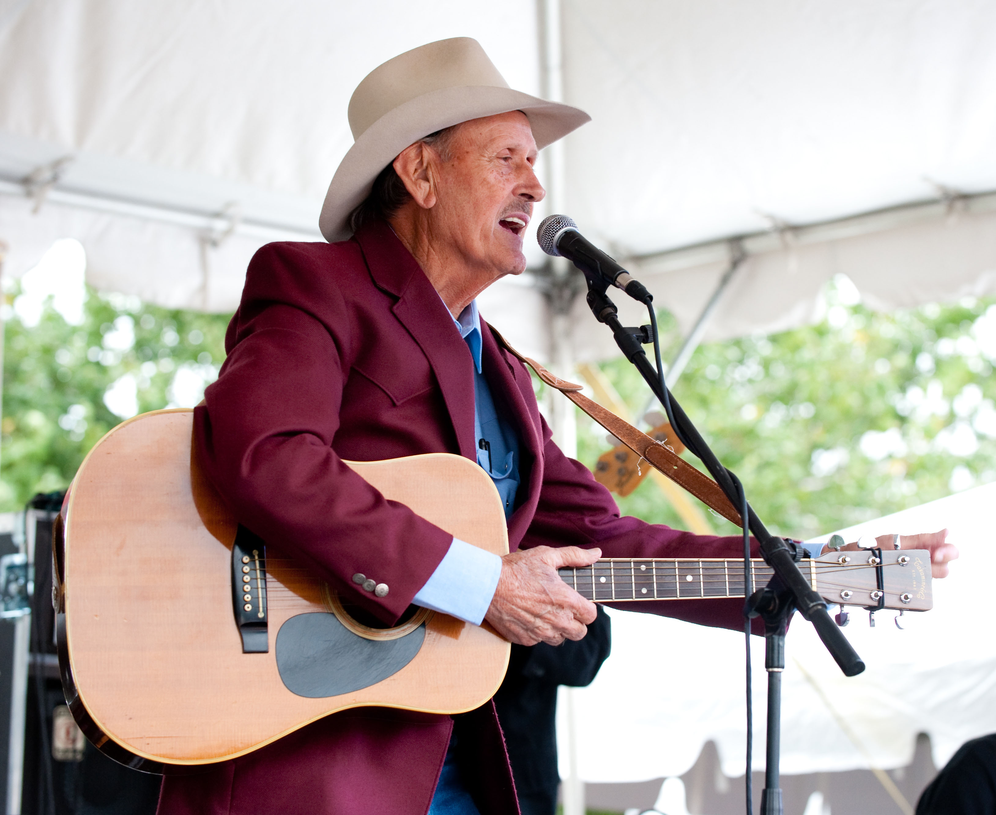 Jimmy C. Newman at 2009 Festivals Acadiens et Créoles Français cadien: Jimmy C. Newman à Les Festivals Acadiens et Créoles, 2009.